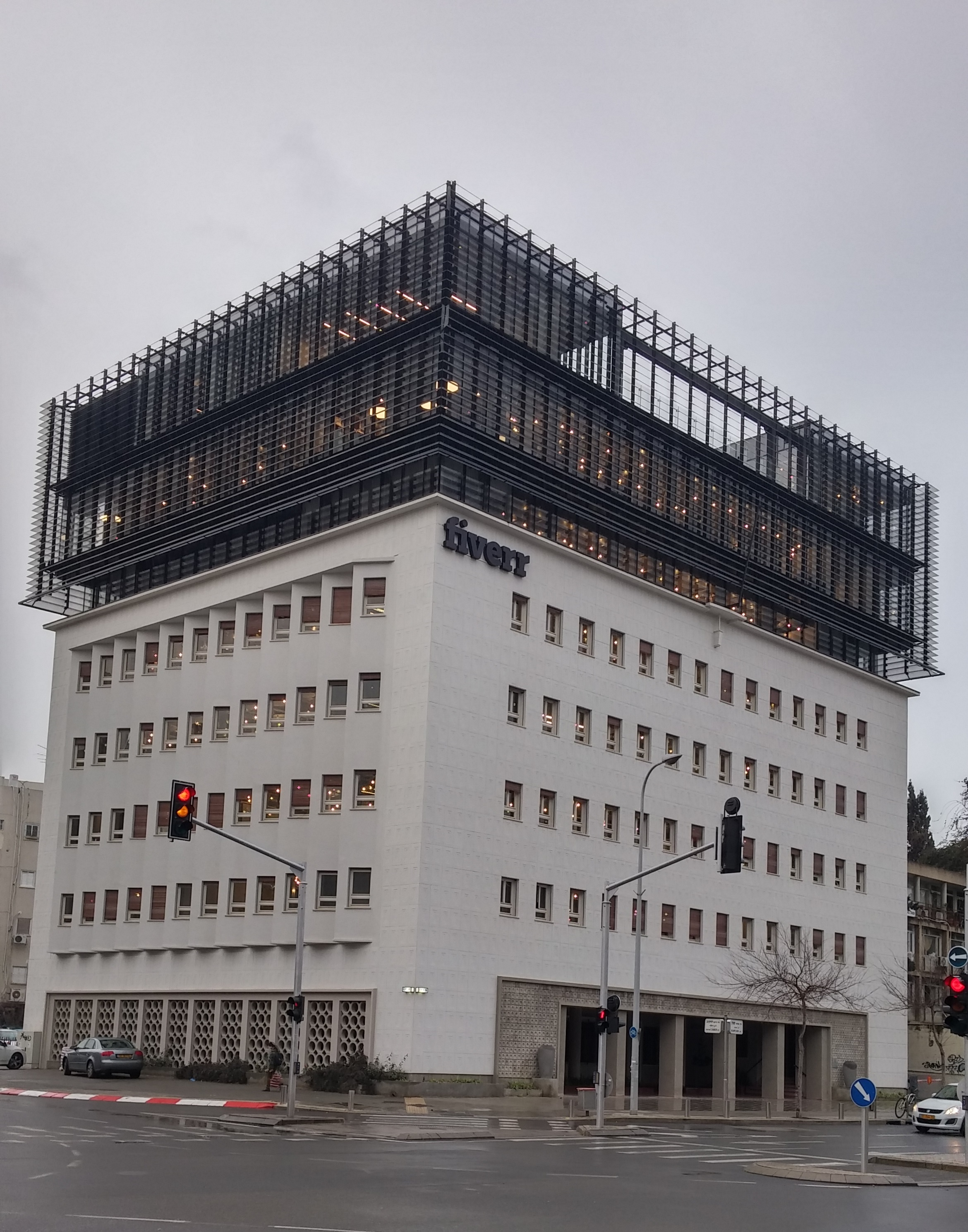 Fiverr house headquarters